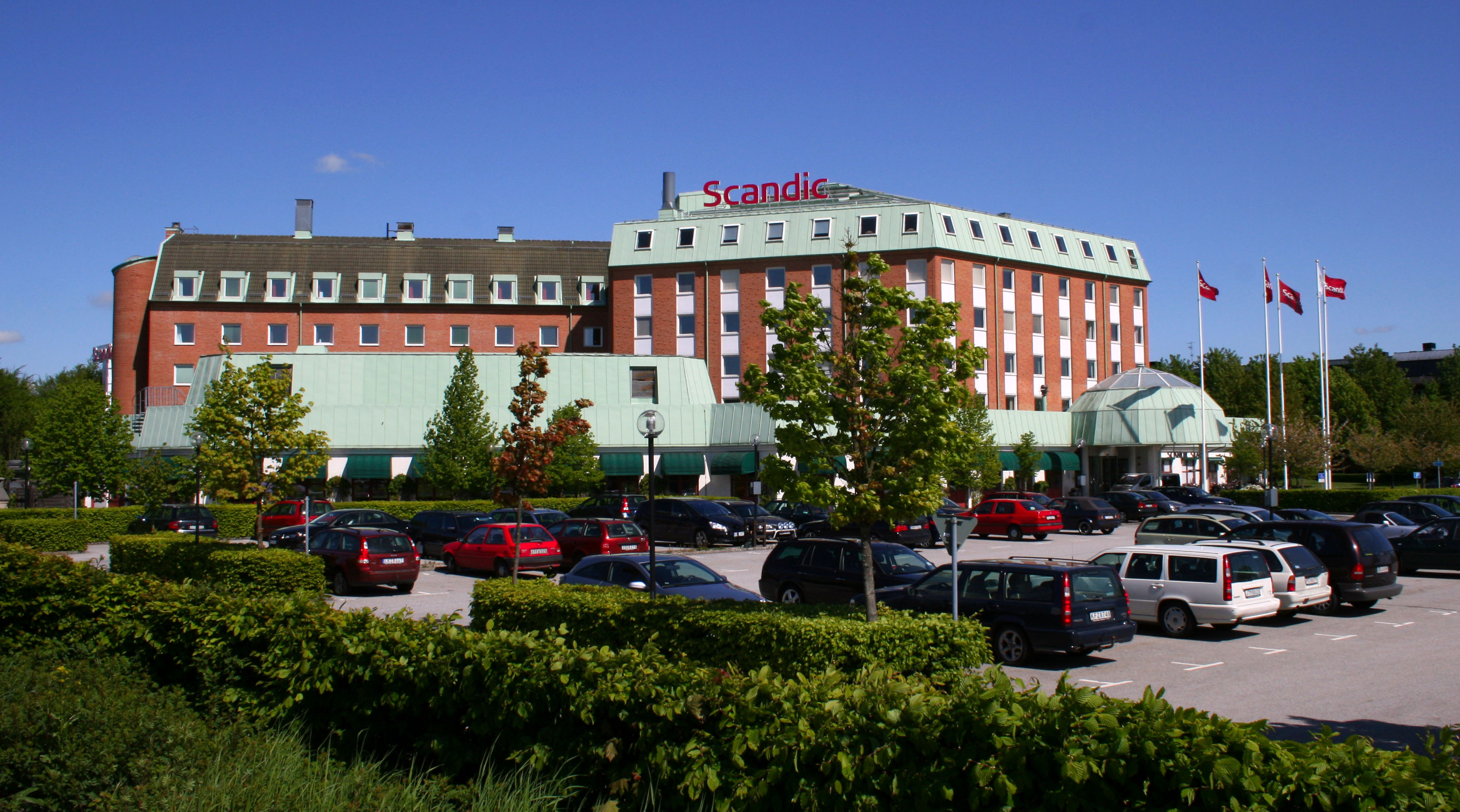 Scandic Hotel, Lund, Sweden